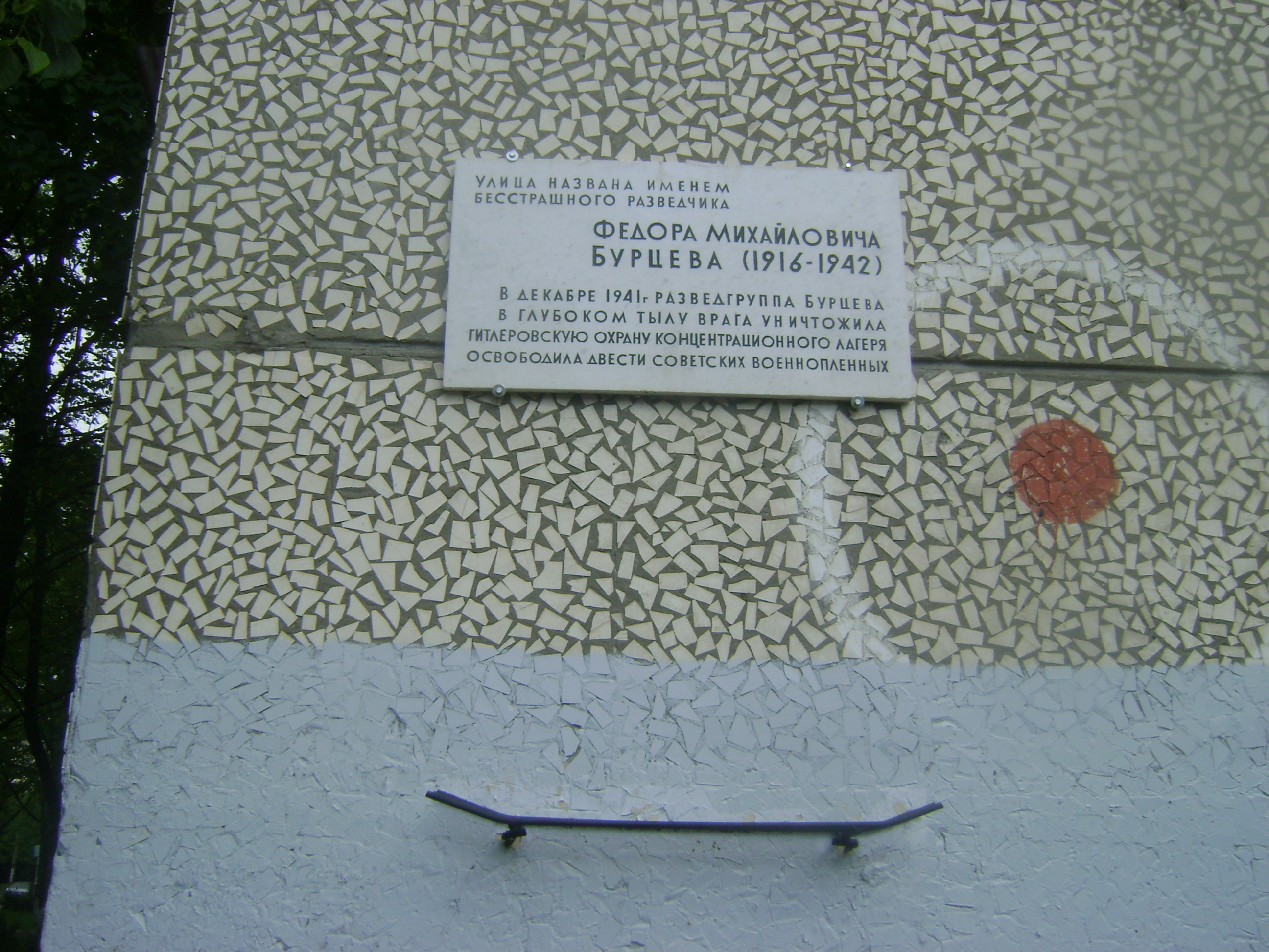 Burtseva Street memorial board Saint Petersburg